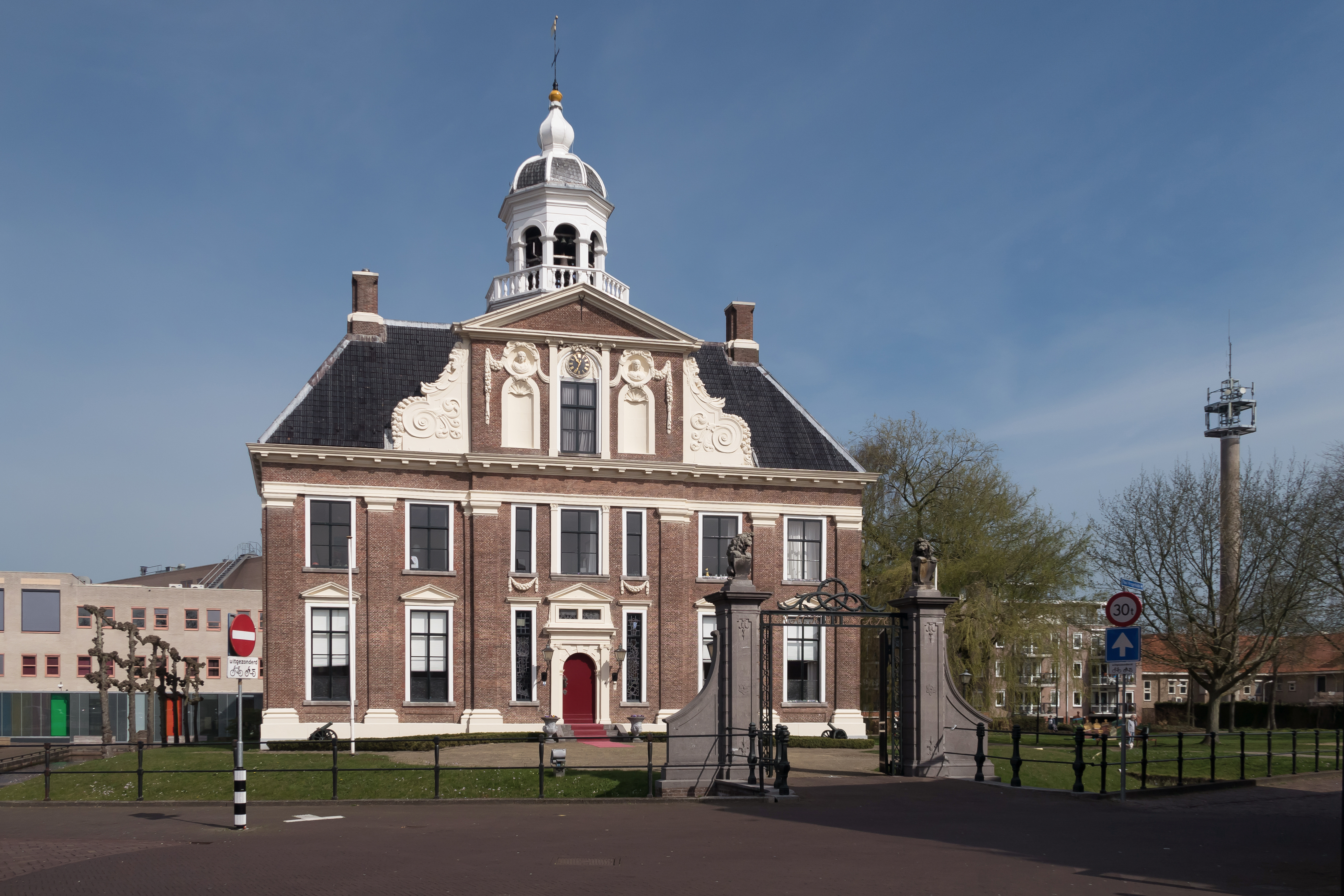 Heerenveen, de Crackstate (part of the townhall)